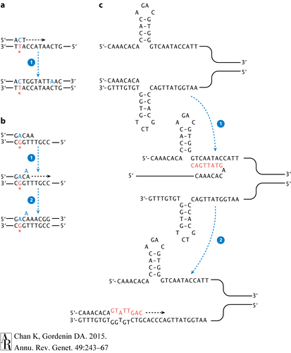 Different errors can occur when TLS DNA Polymerase insert over a lesion. A) Misincorporation of base: in this case, a mismatched cytosine(blue) is inserted to pair with an adenine(asterisk). B)Slippage: An extra adenine is inserted into the sequence, creating a bulge in DNA. C)Hairpin in sequence: small inverted sequences can form hairpins that block themselves from being replicated. In this case the polymerase passes by the hairpin in replication, and the nascent sequence is matched back to the flattened DNA parent strand, even though the hairpin is never replicated. This can cause a large number of mutations.